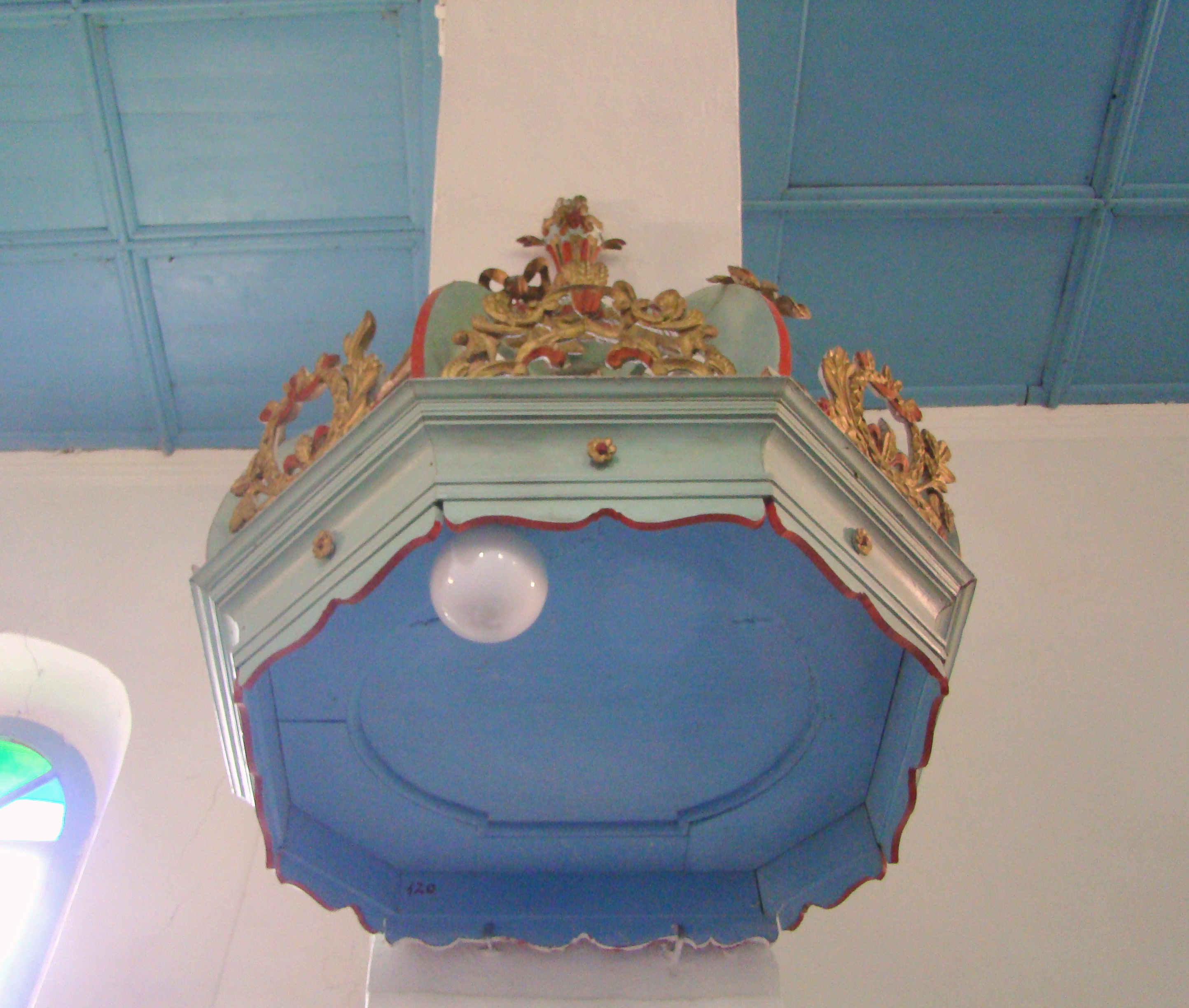 Reformed church in Ulieș, Harghita County, Romania